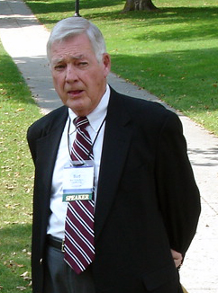 Photo of James I. Robertson, in Lexington, Virginia, by Hal Jespersen, 2007.